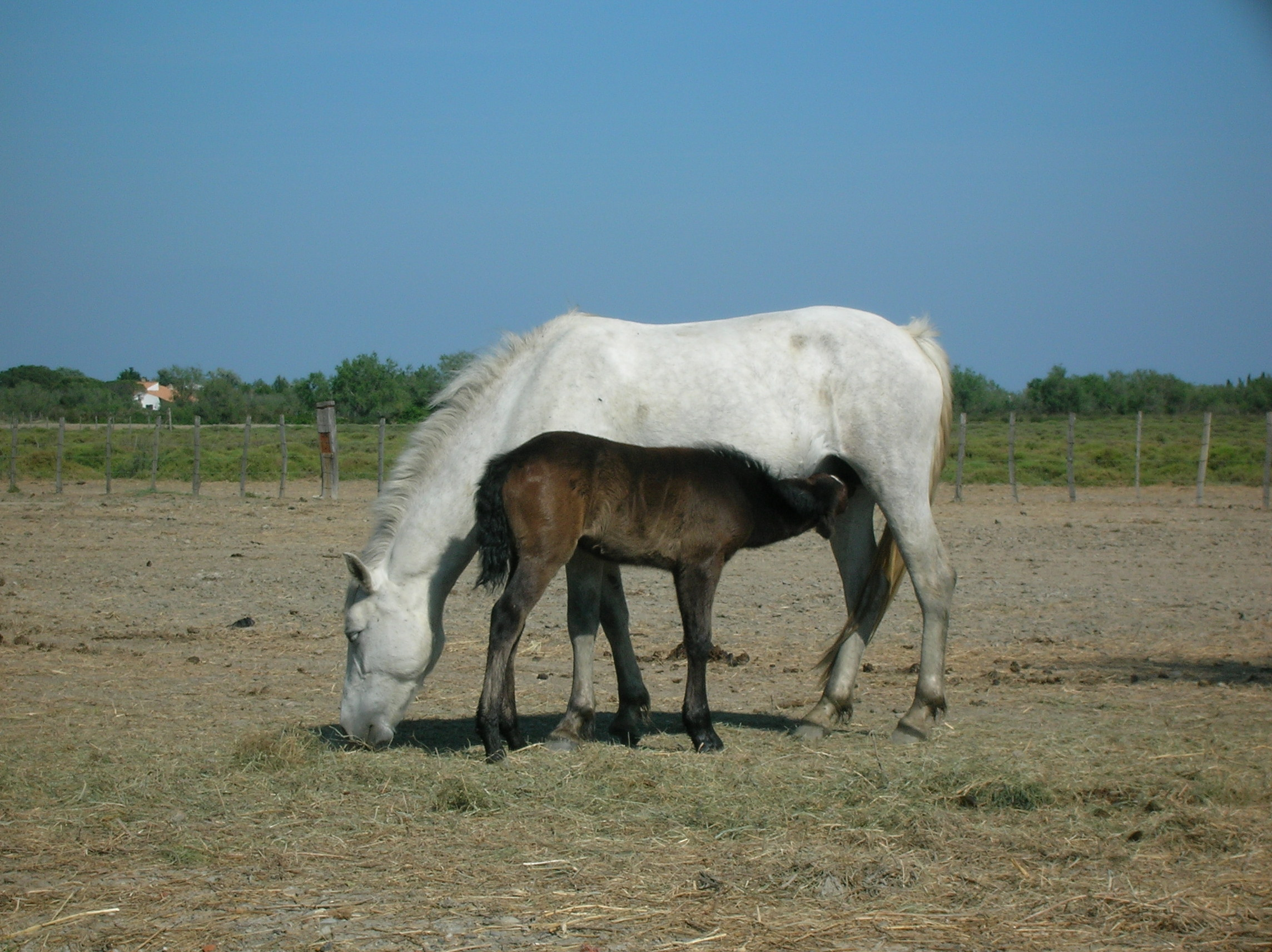 Camargue foal suckling its mother.